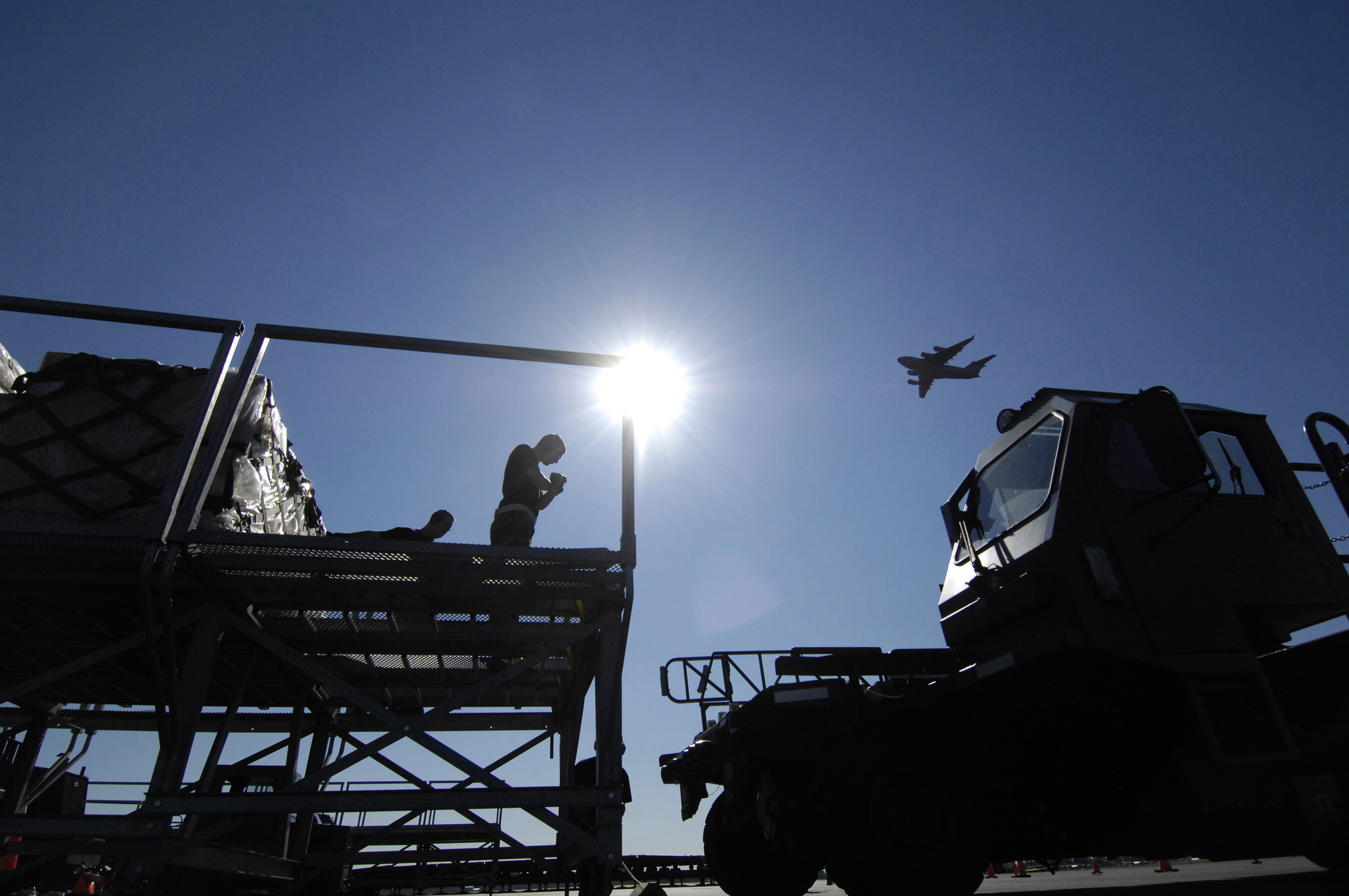 Airmen from the 439th Air Wing at Westover Air Reserve Base, Mass., participate in the 25K Halvorsen Driving Course during Air Mobility Rodeo 2007 at McChord Air Force Base, Wash., July 25.